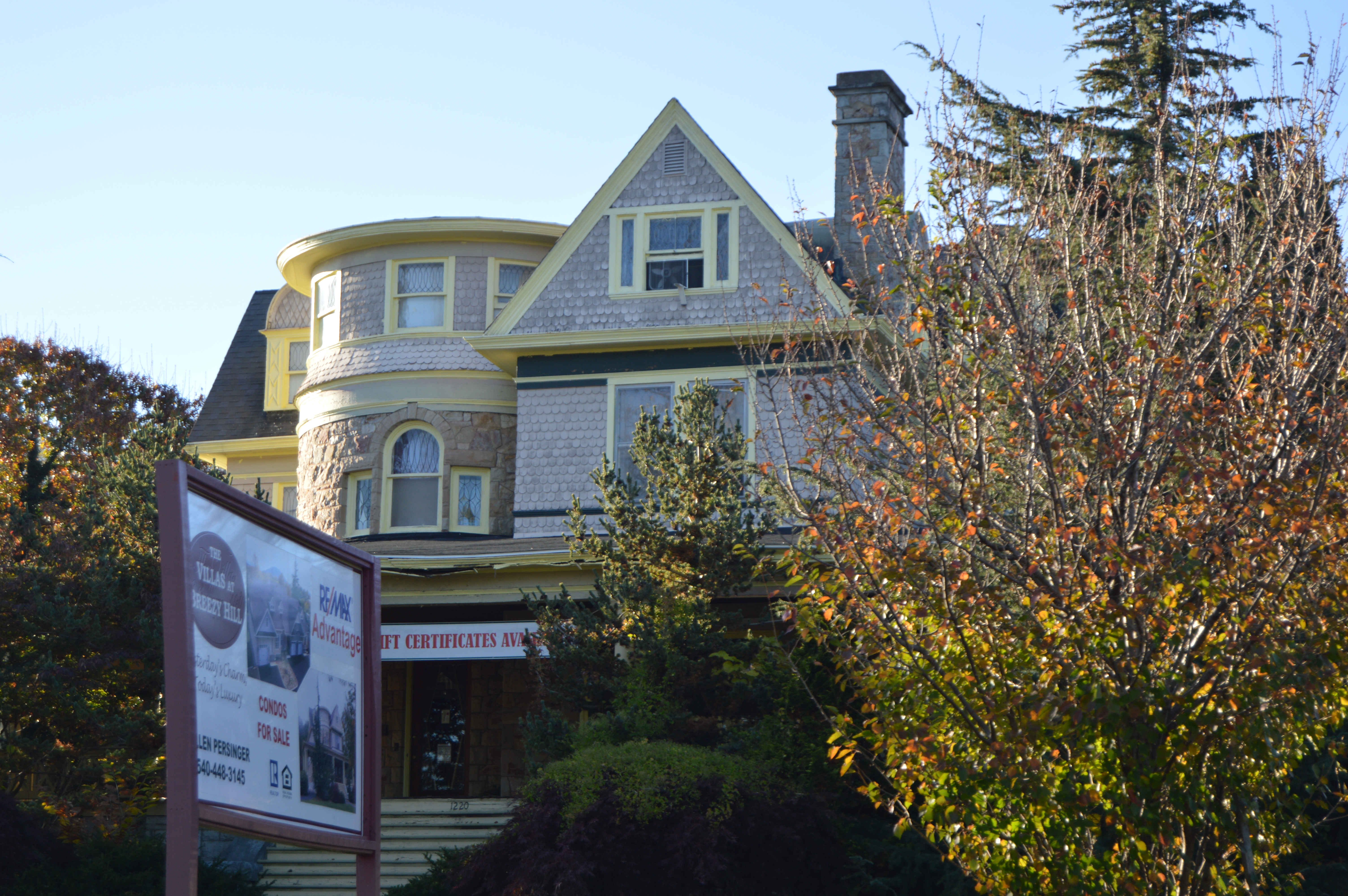 Front of Breezy Hill, located at 1220 N. Augusta Street in Staunton, Virginia, United States. Built in 1896, it is listed on the National Register of Historic Places.